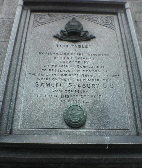 Tablet dedicated to the consecration of Samuel Seabury as the first American church bishop in the Anglican Communion near Marischal College of the University of Aberdeen, UK. Inscription reads: "THIS TABLET BY PERMISSION OF THE AUTHORITIES OF THIS UNIVERSITY ERECTED BY CHURCHMEN OF CONNECTICUT TO PRESERVE THE MEMORY OF THE PLACE IN LONG ACRE VERY NEAR THIS SPOT WHERE ON THE 14TH NOVEMBER 1784 SAMUEL SEABURY D.D. WAS CONSECRATED THE FIRST BISHOP OF THE CHURCH IN AMERICA" Taken by myself on the 25th June 2007 in Aberdeen.